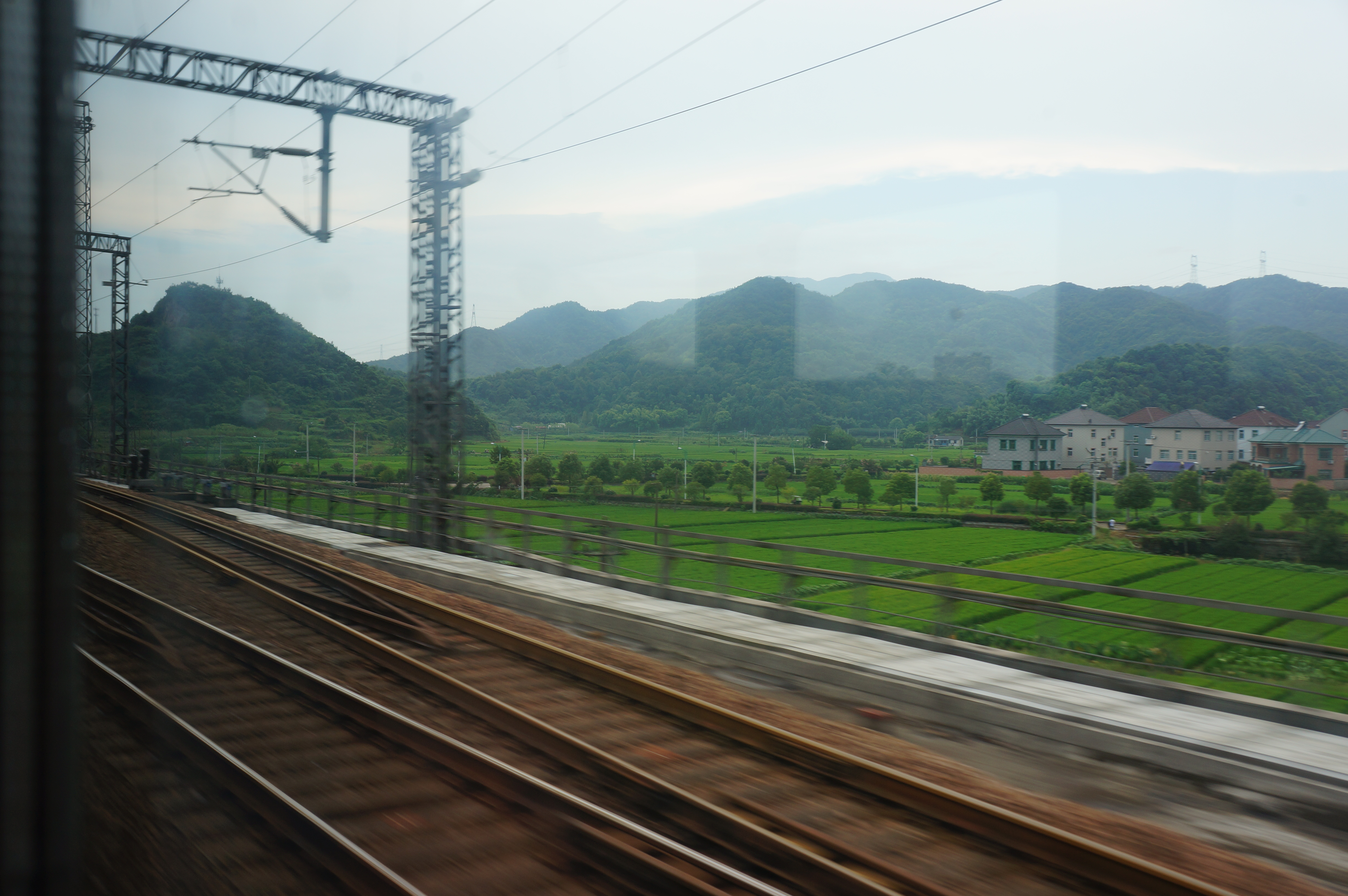 201608 T7785 approaches to Meichi Station on elevated rail